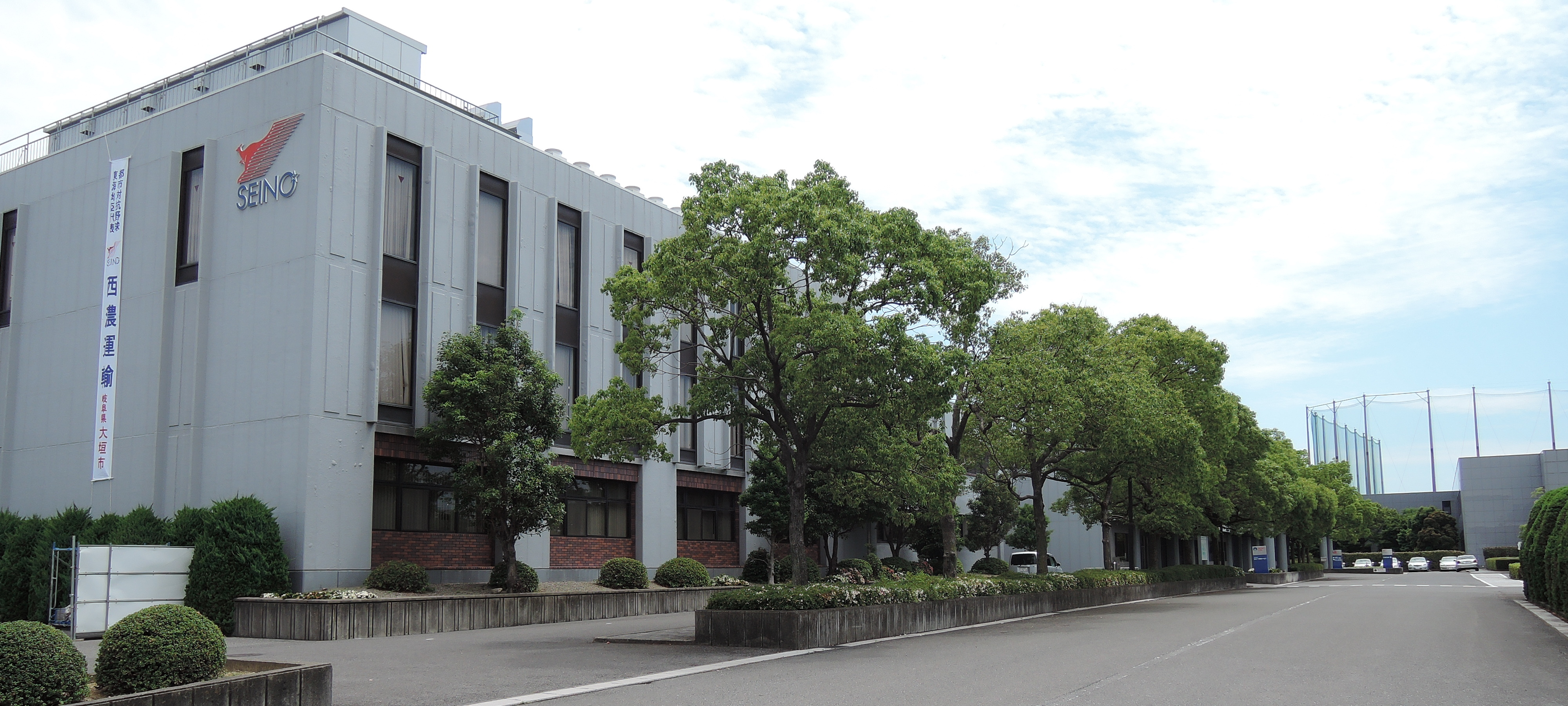 Headquarters of Seino Holdings Co., Ltd.,Gifu prefecture,Japan